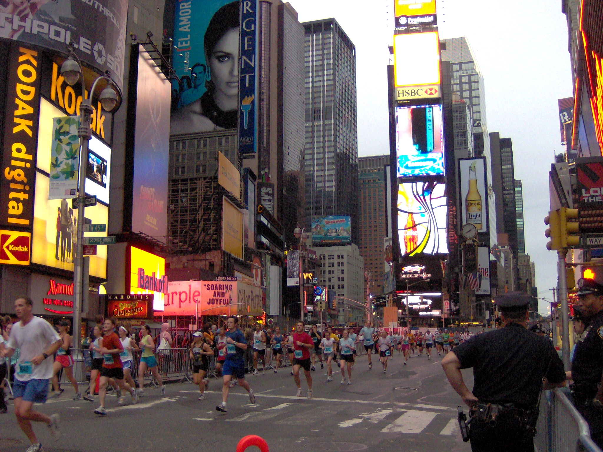 Inaugural NYC Half-Marathon Presented by NIKE. August 27, 2006.